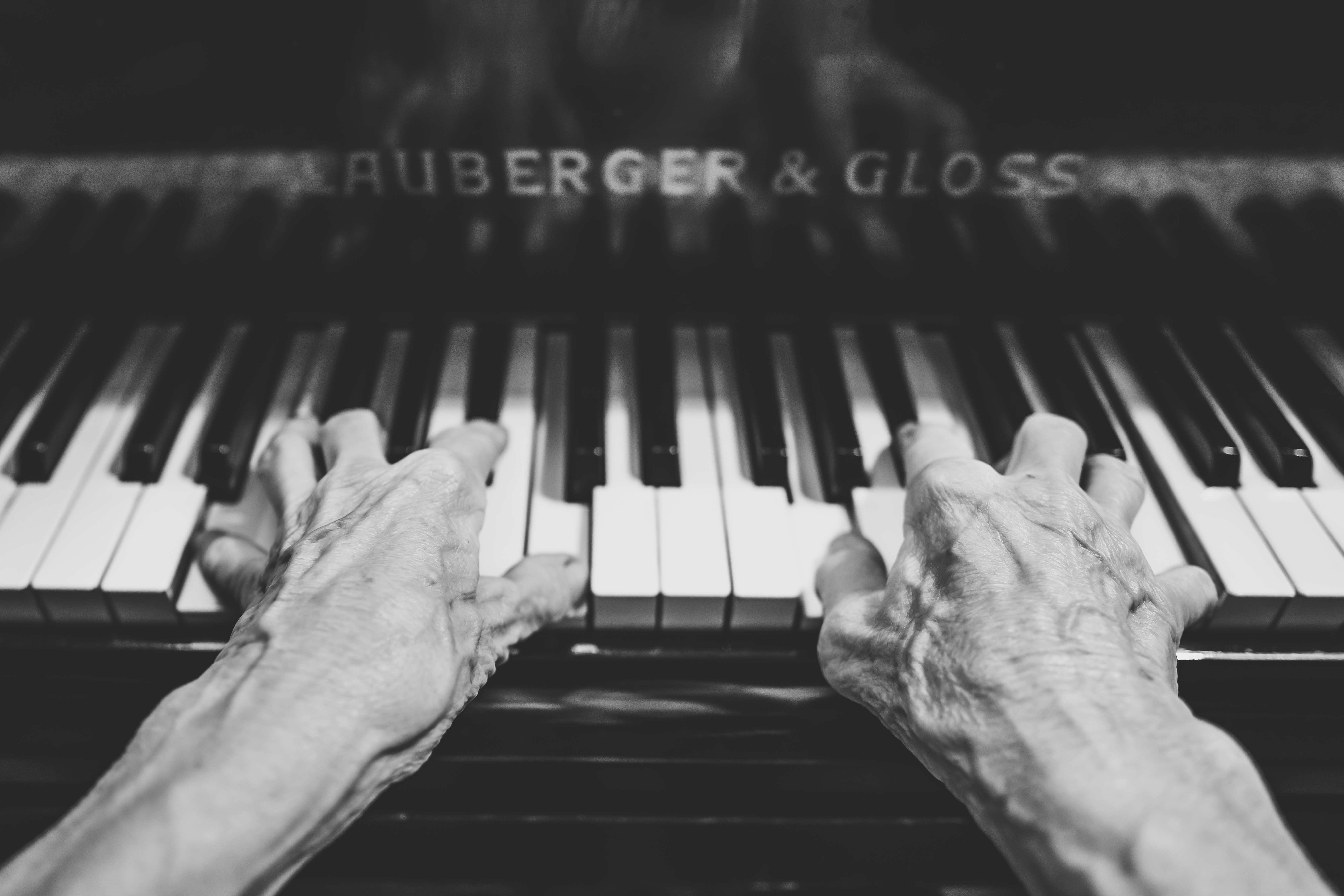 Salzburg, Austria